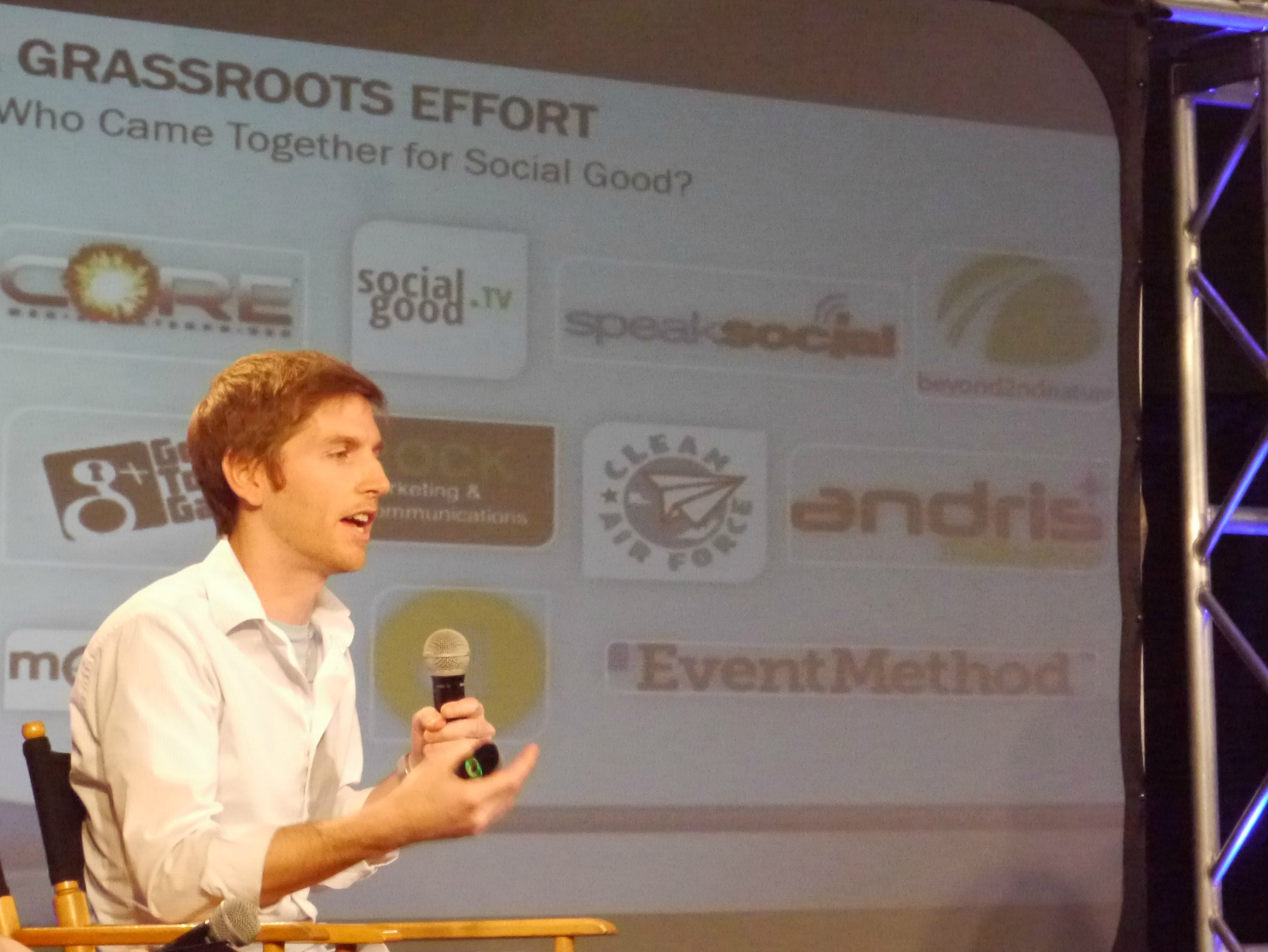 Brad Bogus at SXSW